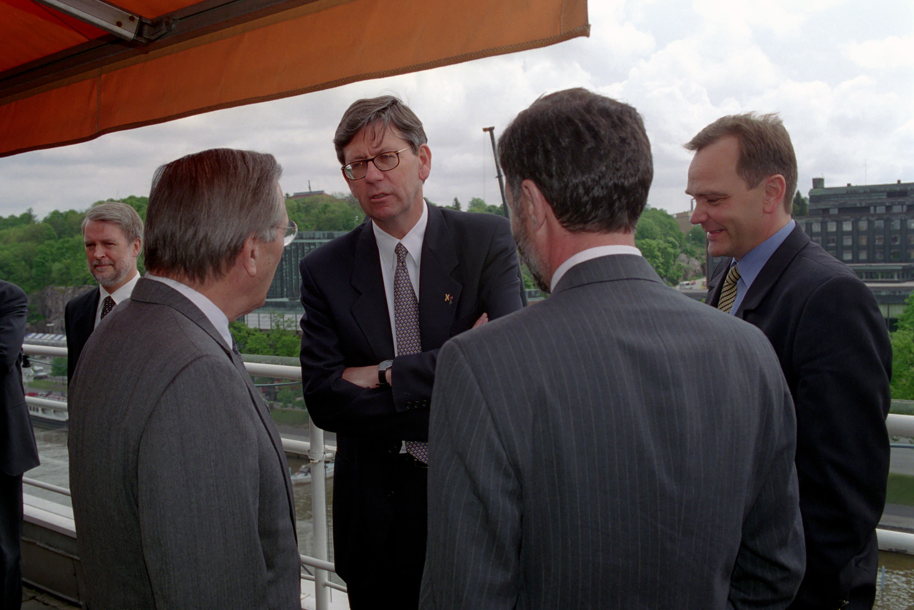 The Honorable Donald H. Rumsfeld (left), U.S. Secretary of Defense, talks with Defense Ministers: Bjørn Tore Godal (2nd left) of Norway; Jan-Erik Enestam (right); and Jan Troborg (foreground) of Denmark, during the Nordic Baltic, U.S. Defense Ministerial, at the Marina Palace Hotel, in Turku, Finland.